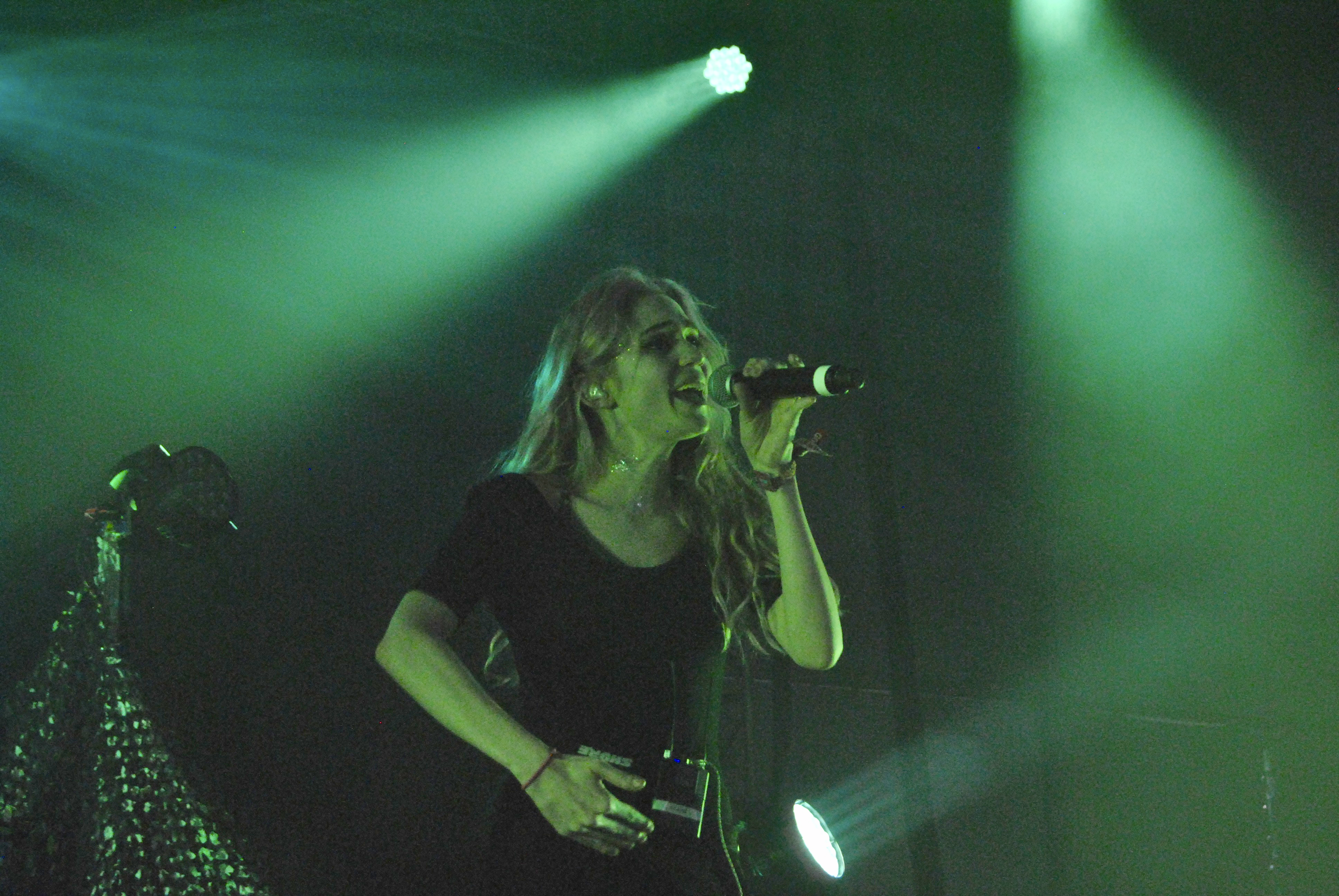 Grimes performing at the Governors Ball Music Festival in New York City, June 2014.